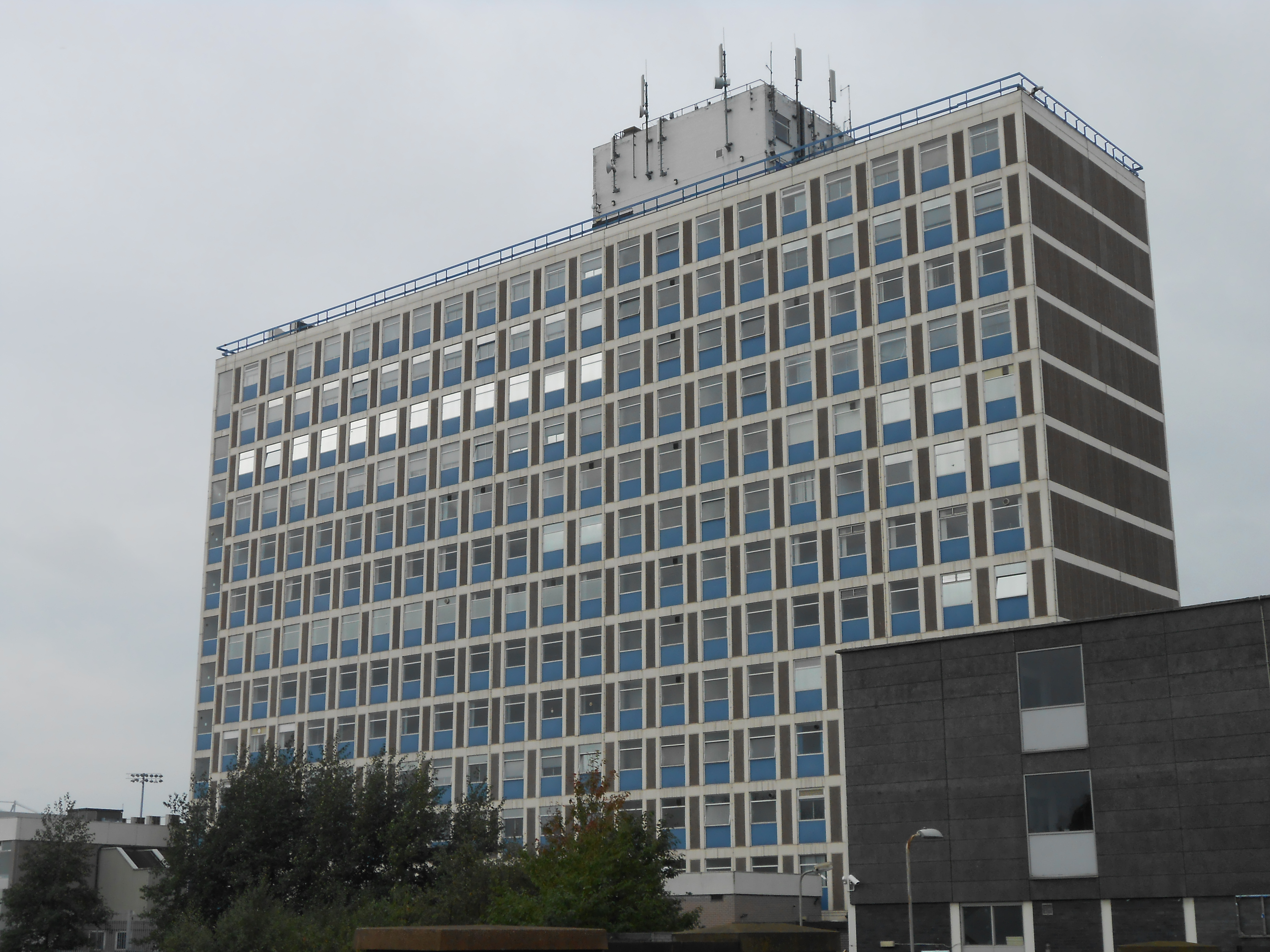 Rail House, Crewe, Cheshire, England.